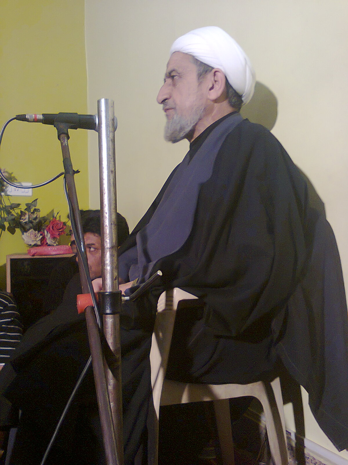 Ghulam Rasool Noori addressing a majlis in Bangalore during mourning of Muharram in December 2013